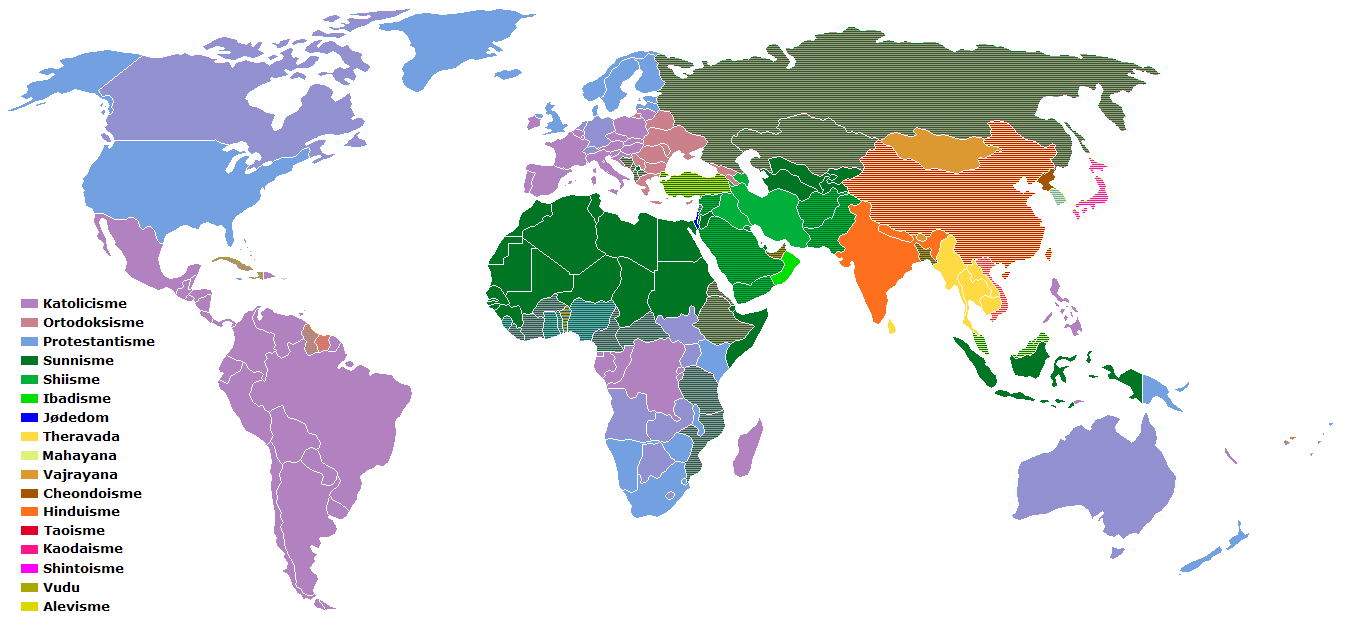 A map of the world, showing the major religions distributed in the world as of today. A different type of map which views only the religion as a whole excluding denominations or sects of the religions, and is colored by how the religions are distributed not by main religion of country etc.